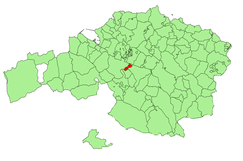 Etxebarri municipality in the province of Biscay